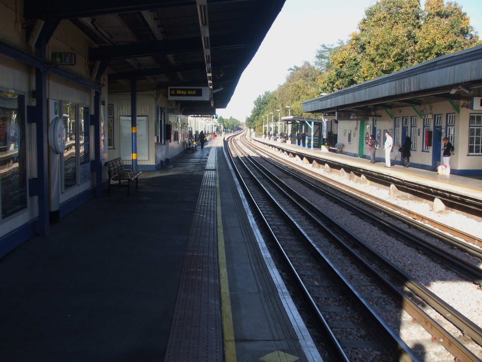 North Harrow tube station looking west